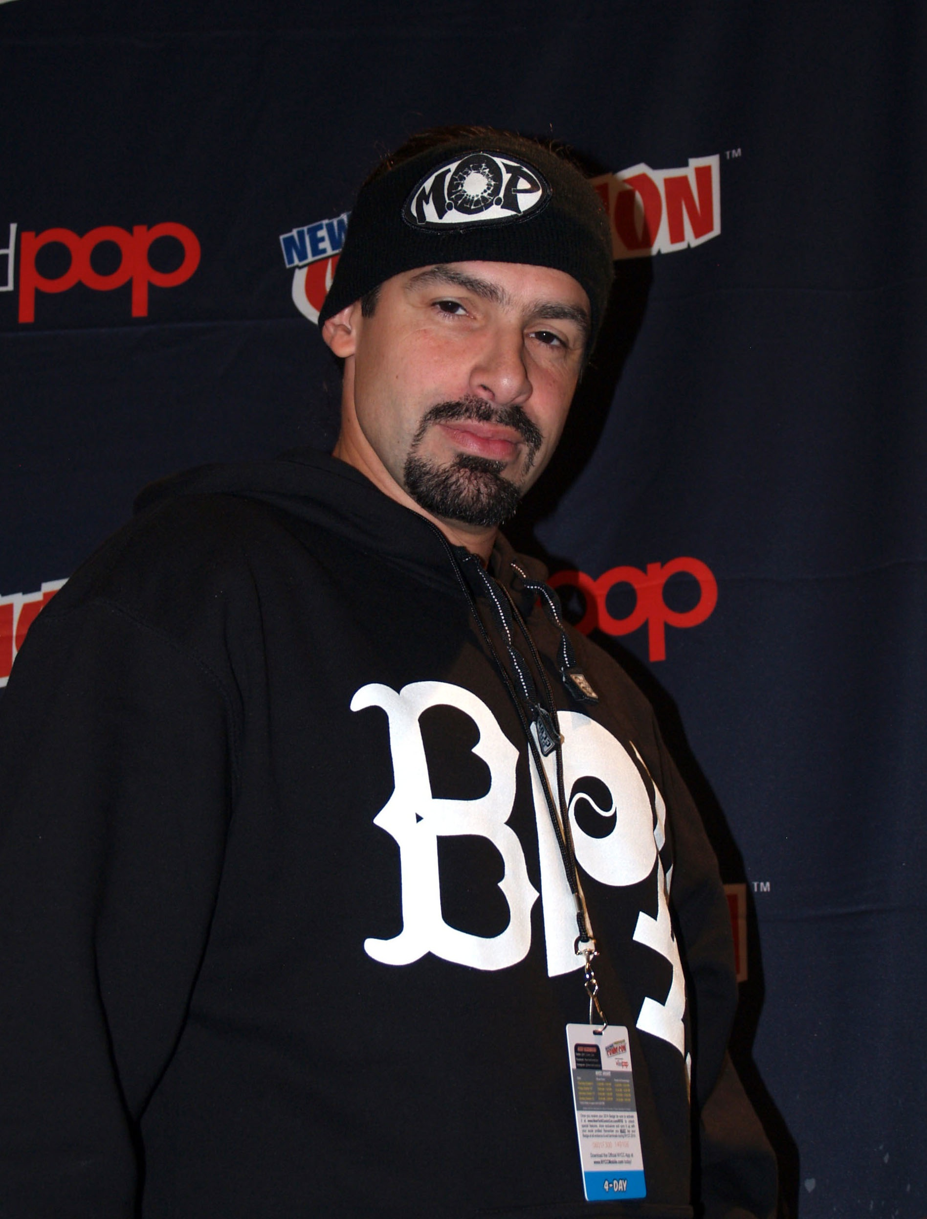 Rap music artist and producer Q-Unique during a panel discussion on hip hop and comics on Sunday, October 12, 2014, at the Jacob K. Javits Convention Center in Manhattan, Day 4 of the 2014 New York Comic Con. This photo was created by Luigi Novi. It is not in the public domain, and use of this file outside of the licensing terms is a copyright violation.